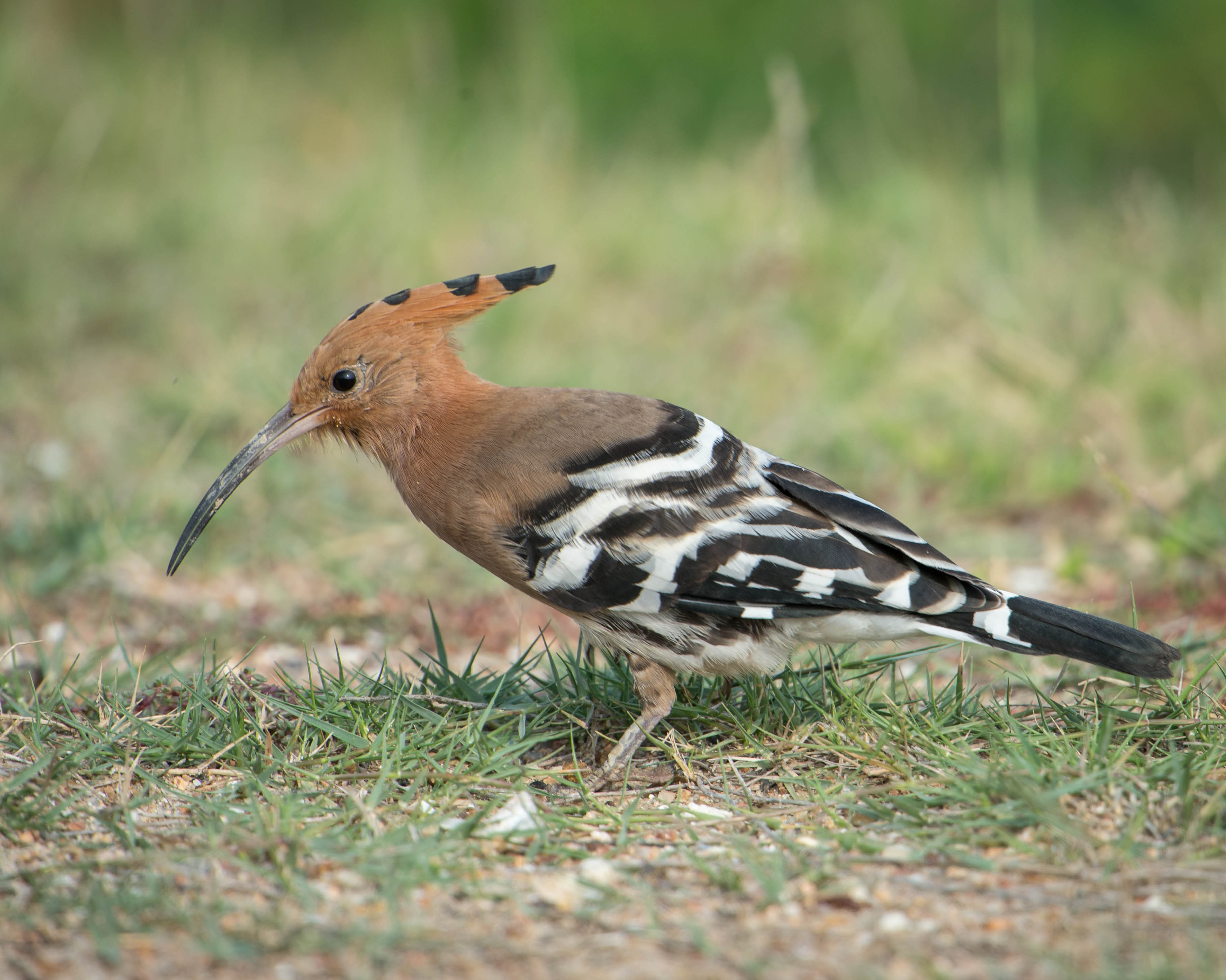 Eurasian Hoopoe (Upupa epops) at Laem pak bia, Phetchaburi, Thailand